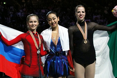 The ladies podium at the 2014 World Championships.From left: Julia Lipnitskaia (2nd), Mao Asada (1st), Carolina Kostner (3rd).